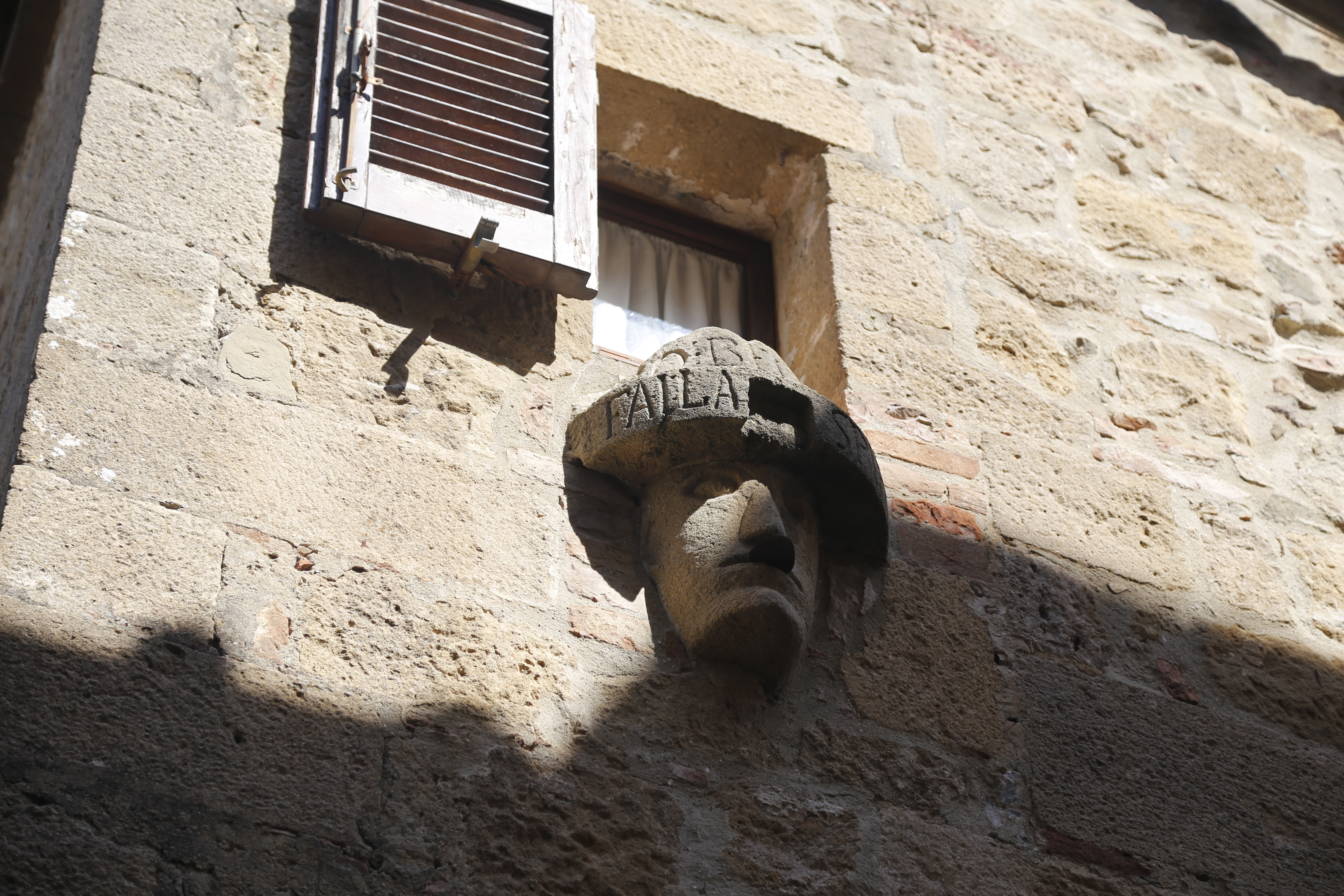 Monticchiello